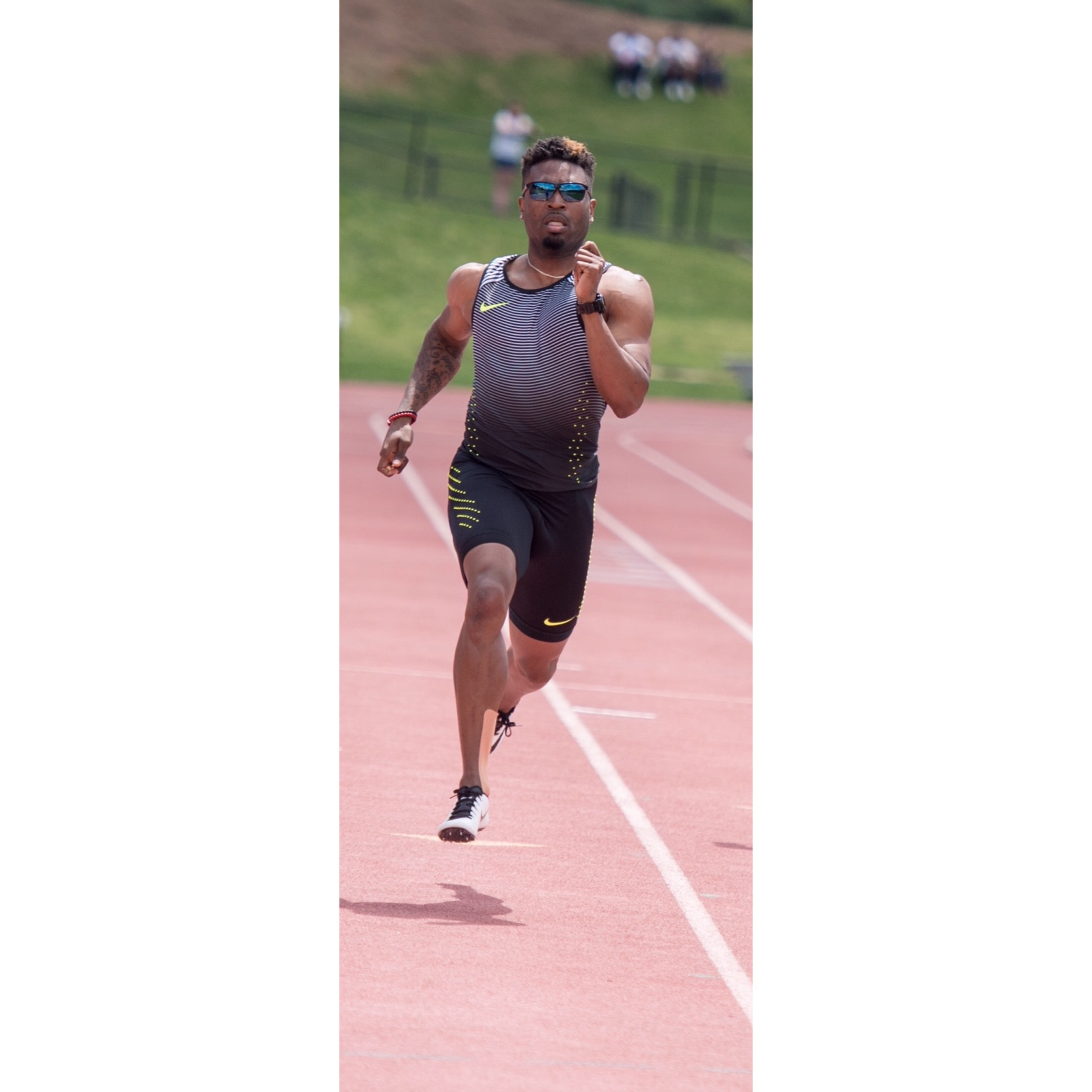 Manteo Mitchell in full stride down the back-stretch during a 400m race.